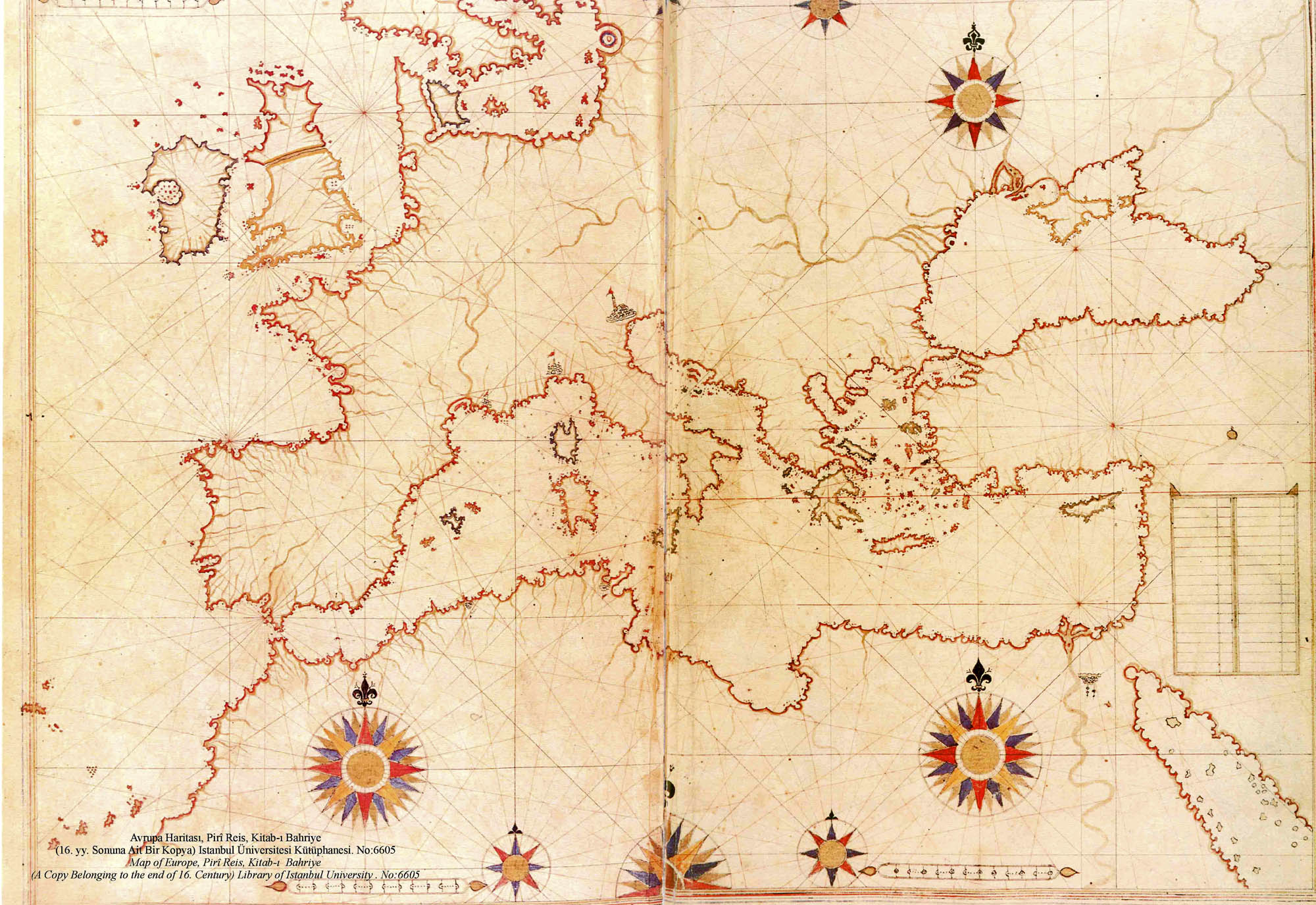 Piri Reis map of Europe, the Mediterranean Sea and North Africa from his Kitab-ı Bahriye (Book of Navigation), 1521-1525